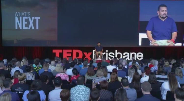 Dinesh Palipana speaking at TEDxBrisbane 2018 about inclusivity in the medical profession.